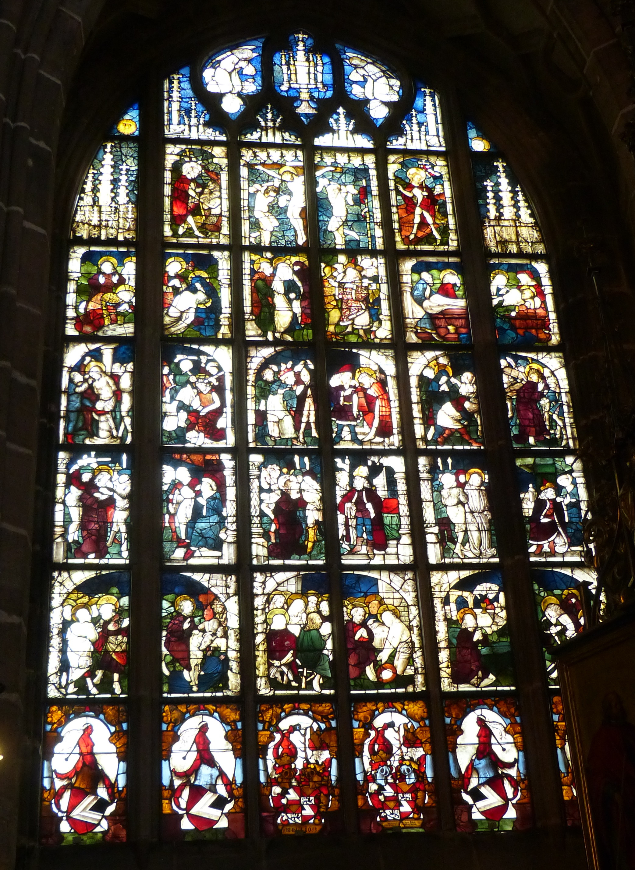 Nuremberg ( Middle Franconia ). Saint Lawrence parish church: Stained glass window ( 1480 ) of the Haller family